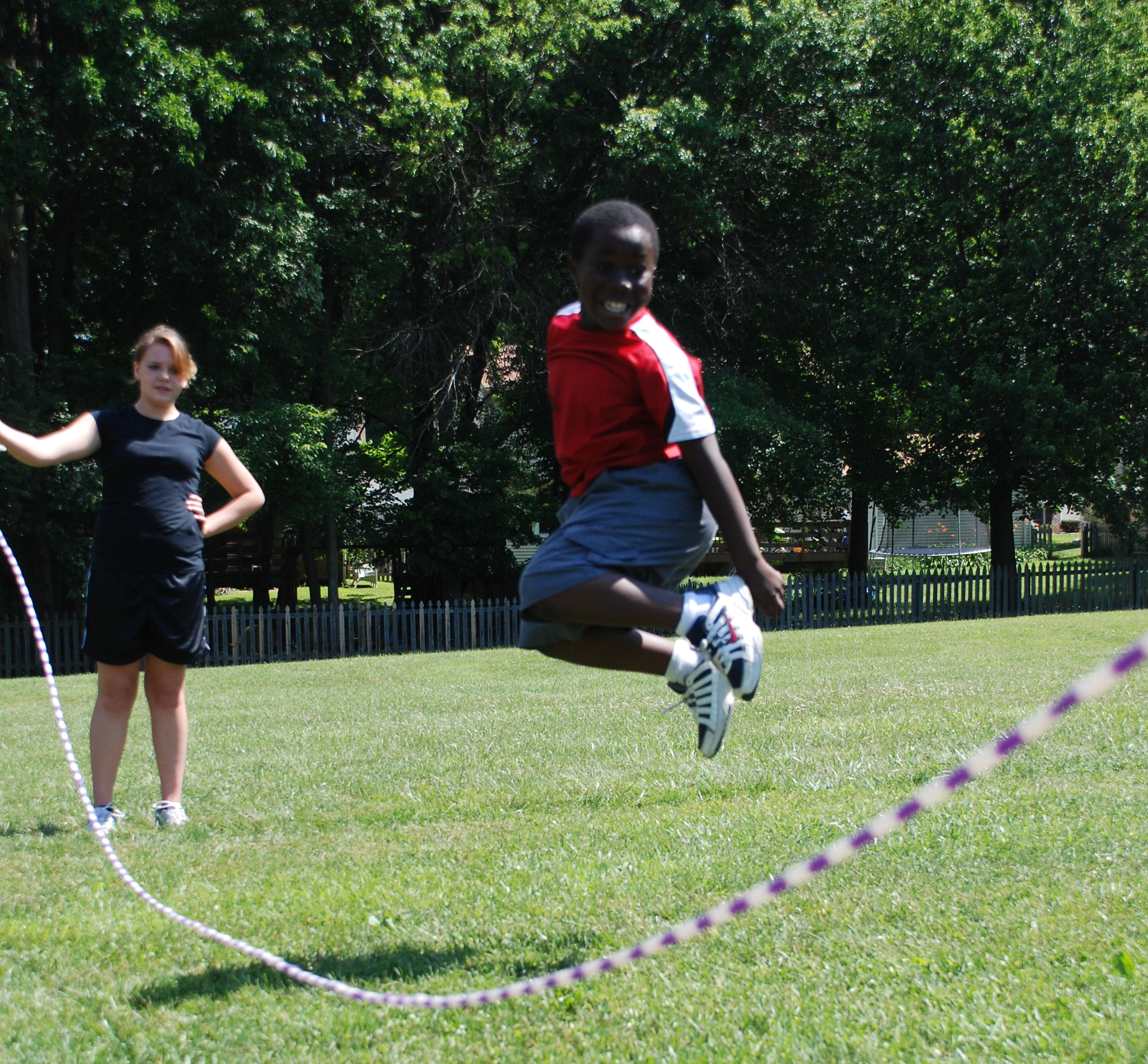 Day of sports and games at elementary school in Fairfax County, Virginia: Jump rope.